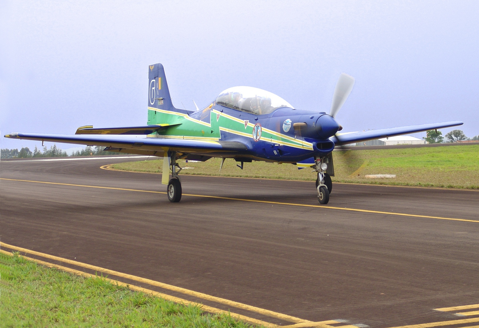 Embraer EMB 312 Tucano from the Brazilian Air Force Smoke Squadron (Esquadrilha da Fumaça).